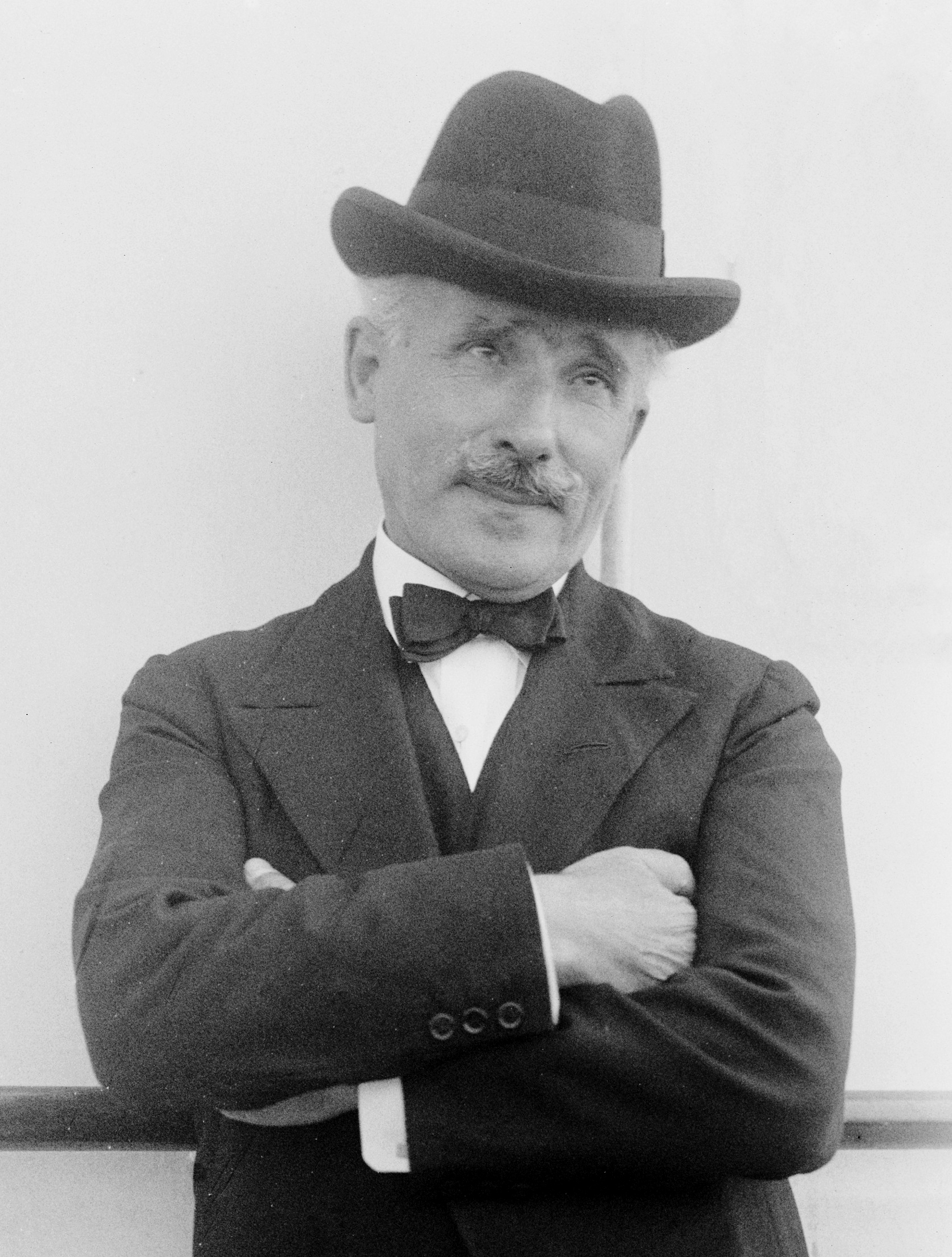 Toscanini in a dress suit.